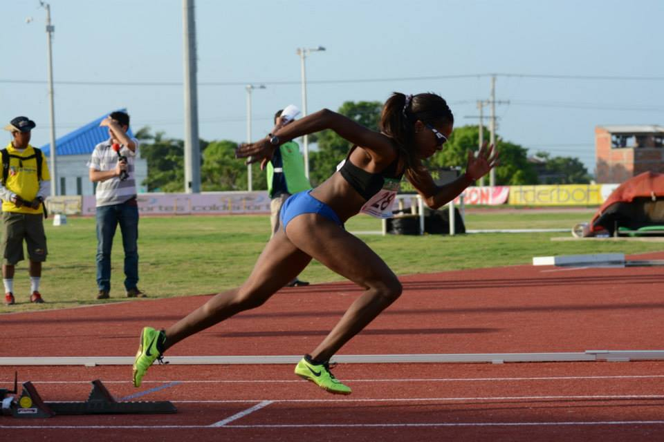 Deborah Rodriguez in the South American Championship in Cartagena, Colombia.